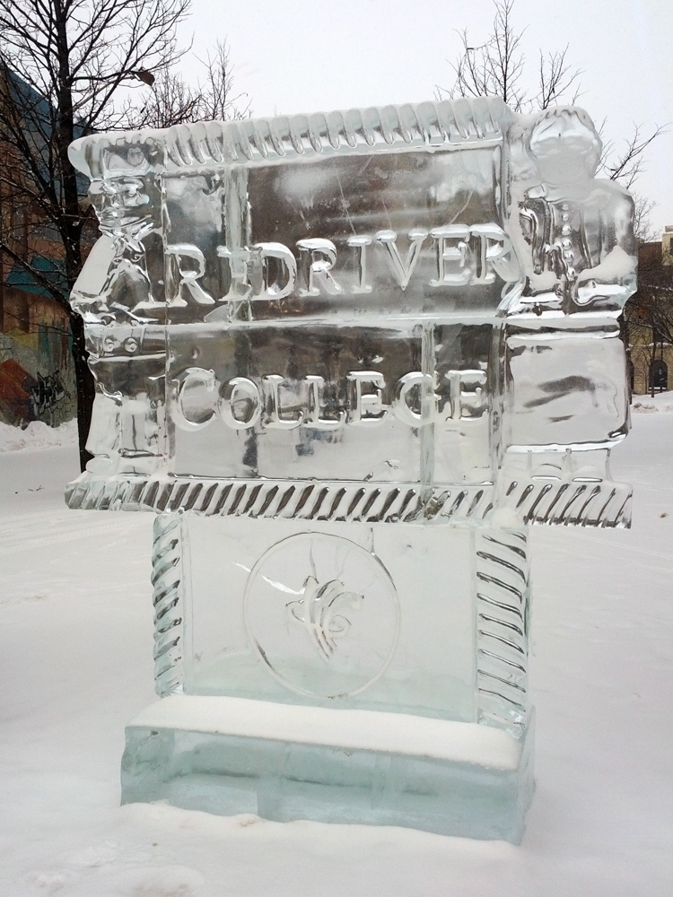 Festival du Voyageur ice sculpture for Red River College at Old Market Square in Downtown Winnipeg